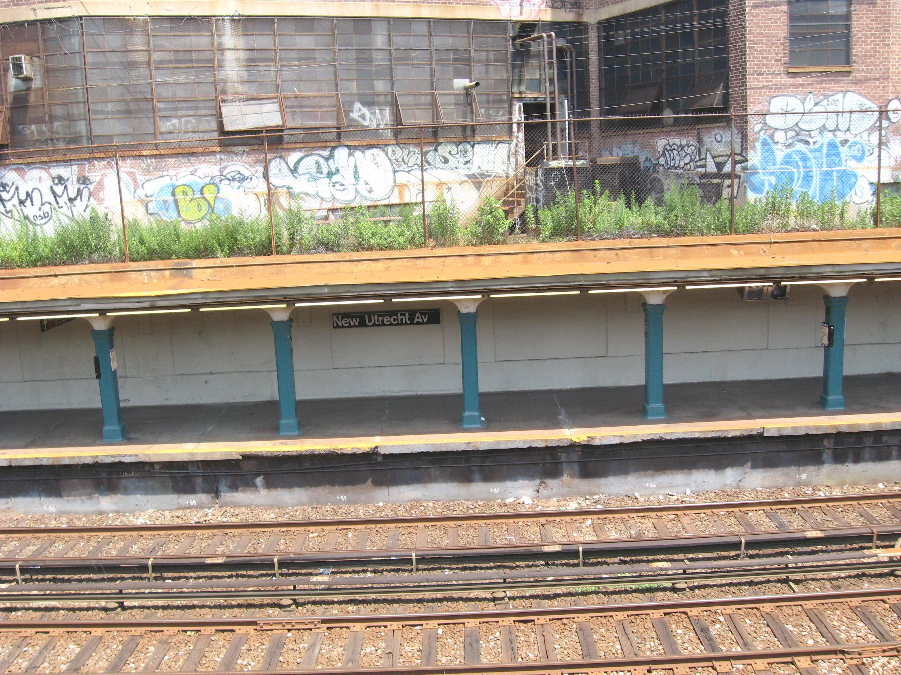 Looking north from the roof of the southbound New Utrecht Avenue/62nd Street (New York City Subway) platform, at the northbound platform on a sunny midday